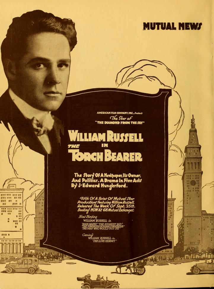 Advertisement in Moving Picture World for the American film The Torch Bearer (1916).